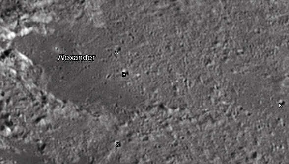 Alexander lunar crater as seen from Earth with satellite craters labeled